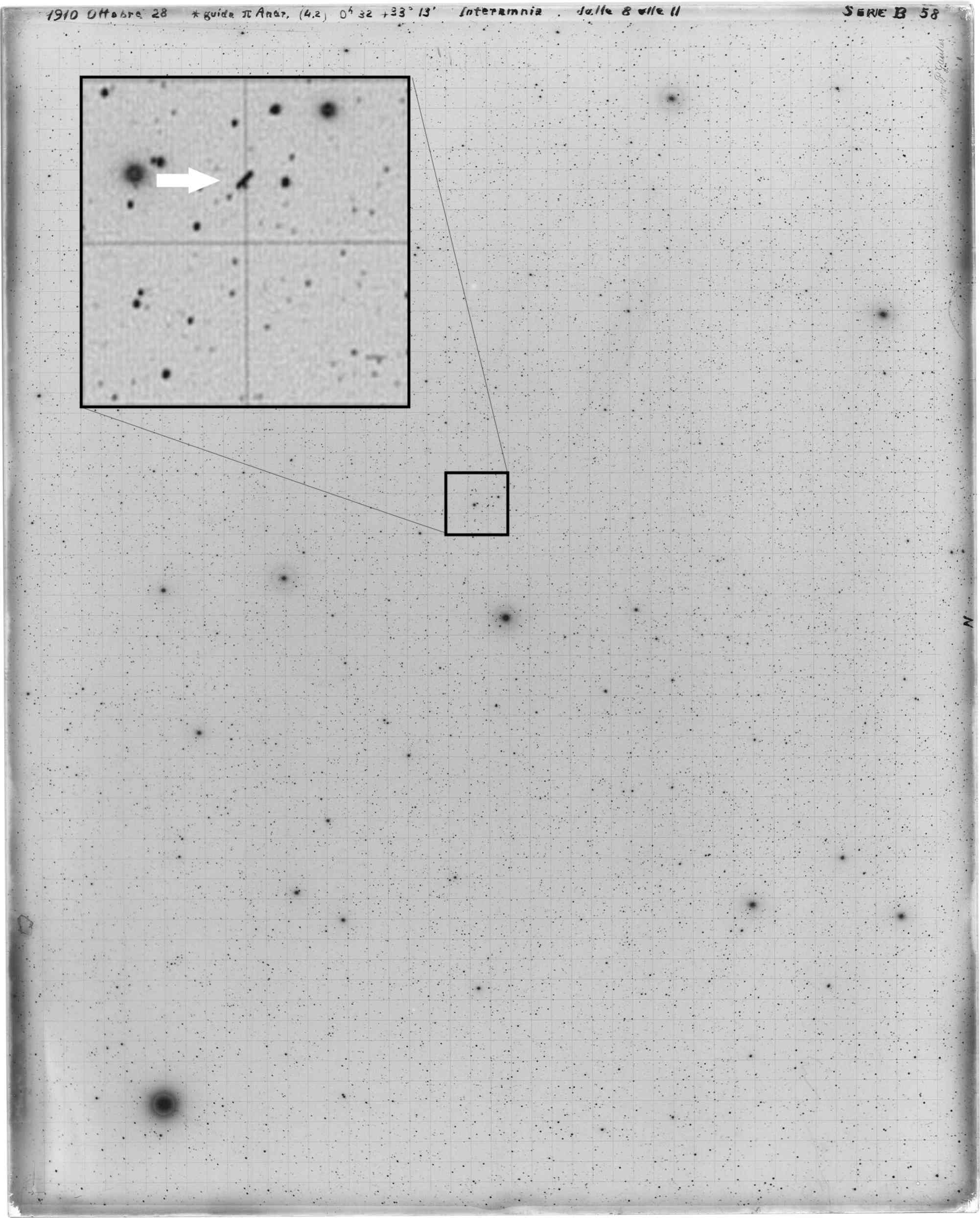 One of the first photographic plates of 704 Interamnia obtained by the Italian astronomer Vincenzo Cerulli form the Observatory of Teramo (Italy). The image was taken in Oct. 1910; the path of the asteroid is shown in the zoom.